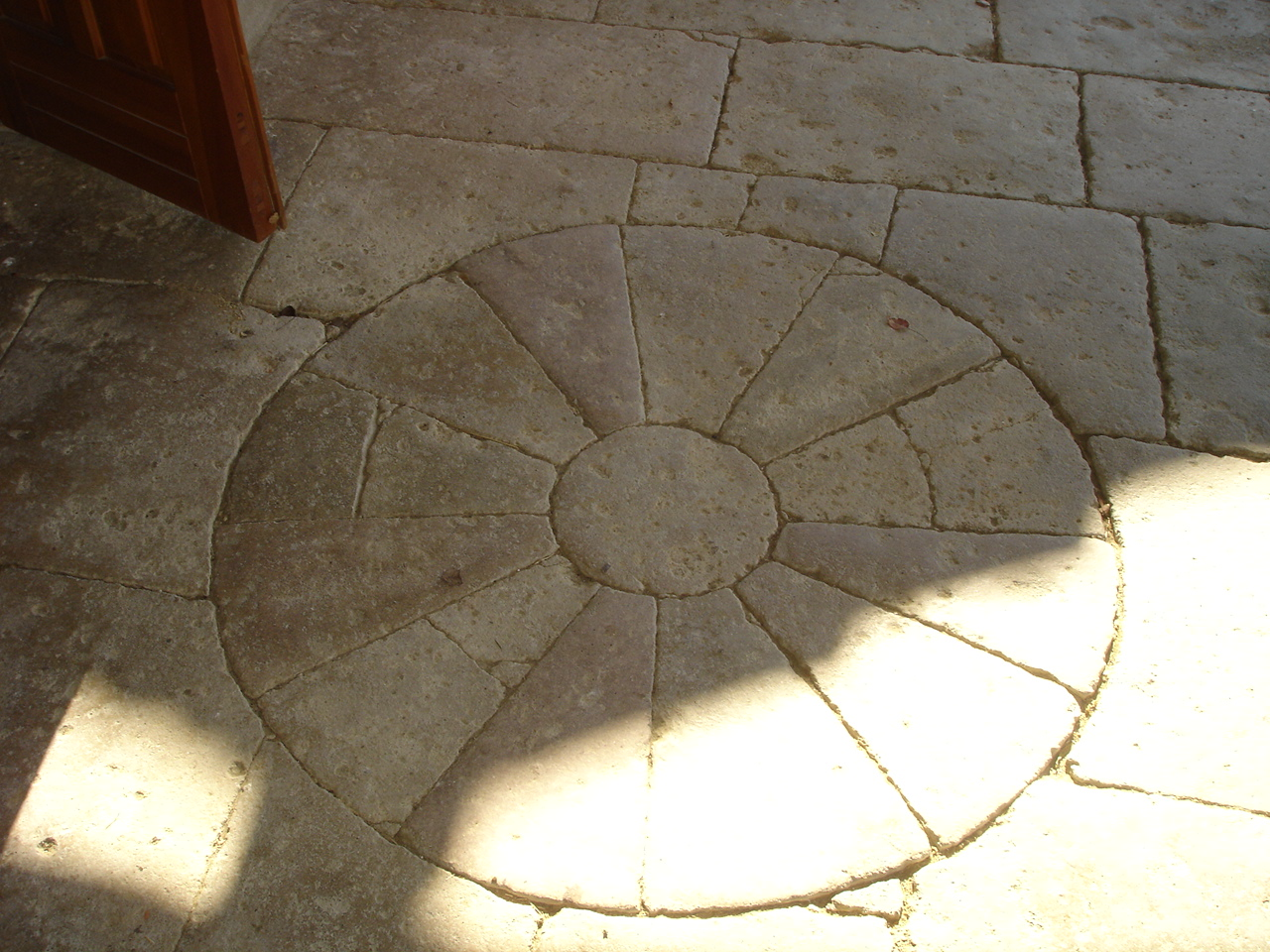 Image of the sun similar to the design of the Macedonian flag in front of the Church Sv. Petka in the village of Radibus, Kriva Palannka region, Macedonia